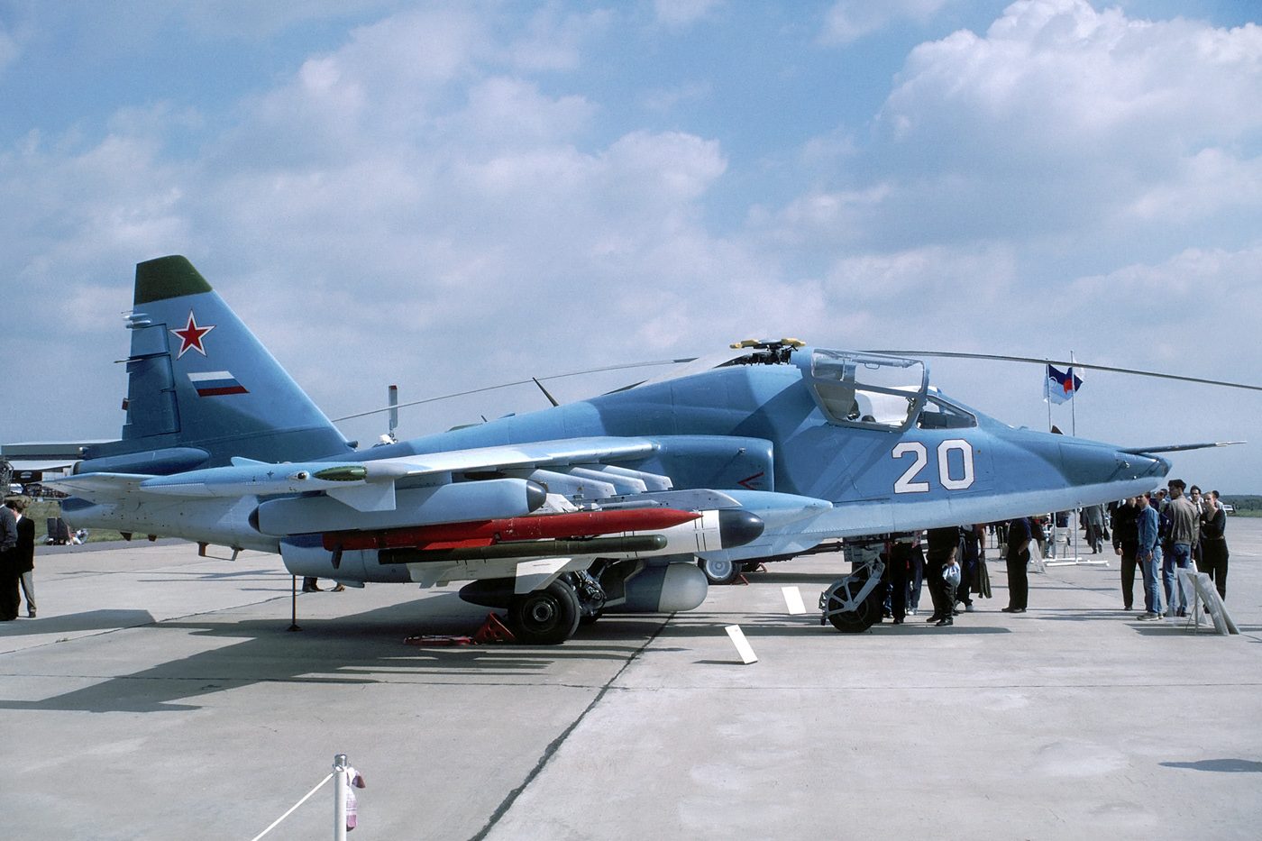 Zhukovsky 1995. The Su-25TM (also known as Su-39) is a single-seat, advanced version of the Su-25. Only 8 were built.